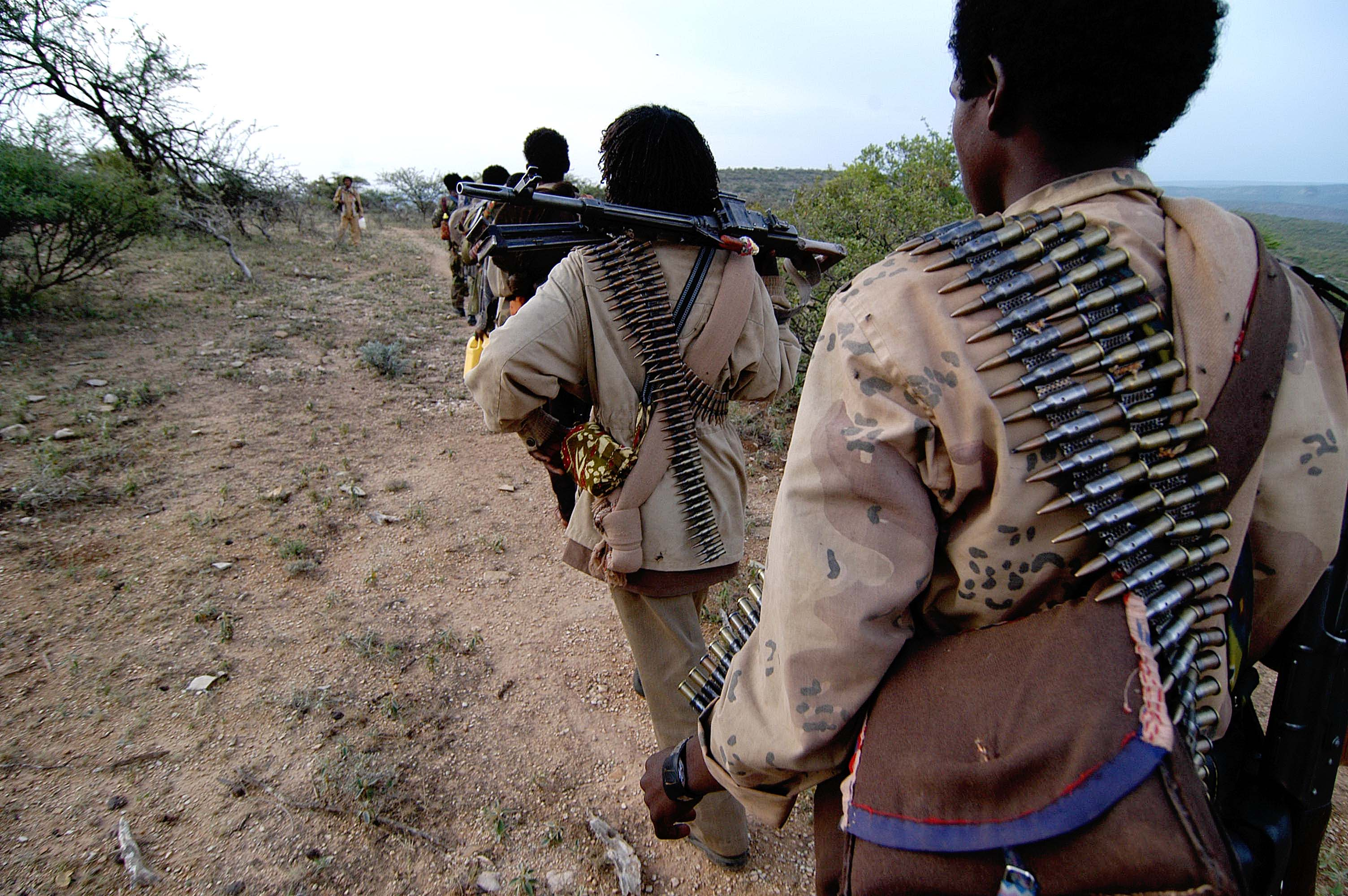 A unit of ONLF rebels move from one location to another after being surrounded for a week on a hill top.